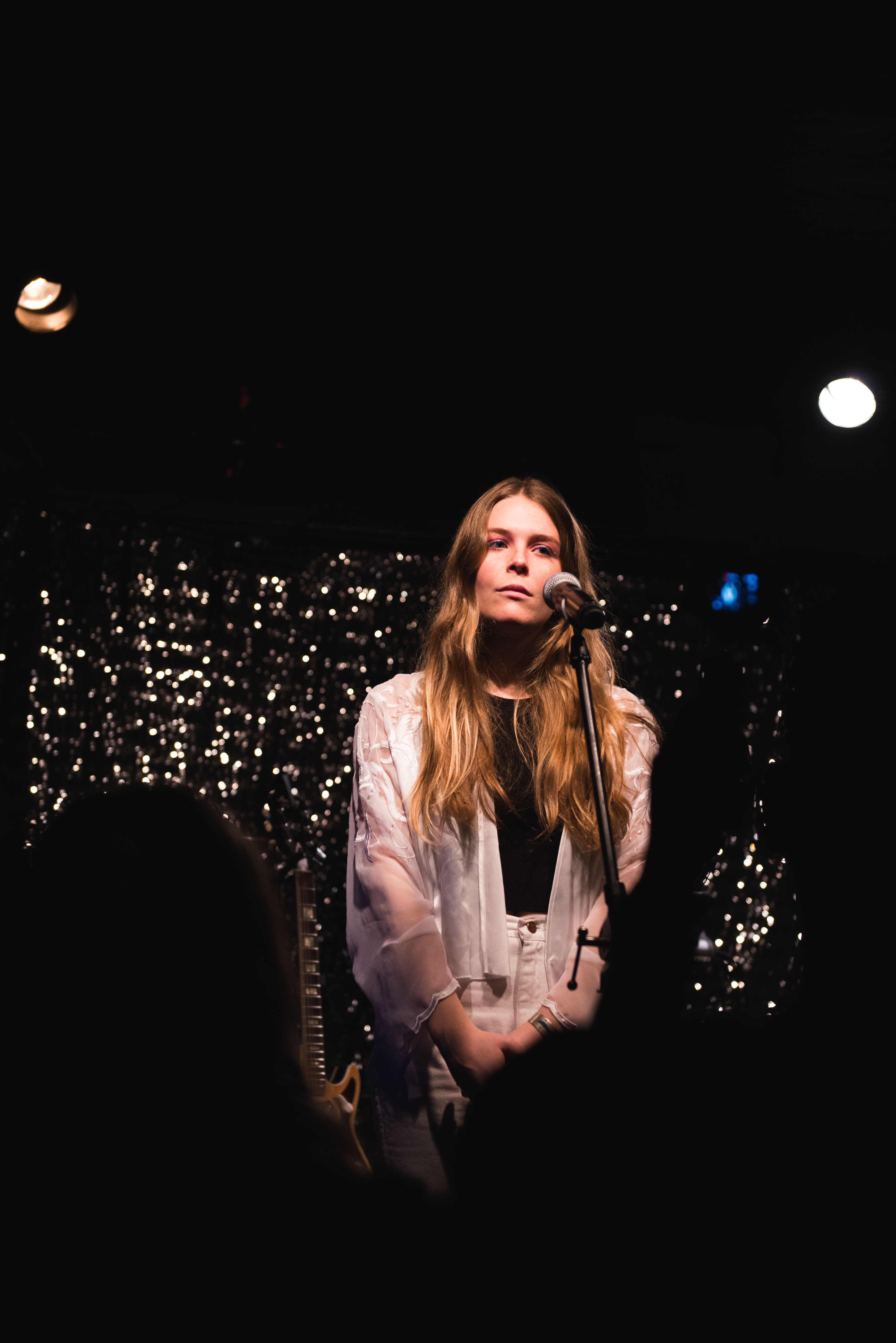 Maggie Rogers performing at Syndicate Lounge in Birmingham, AL